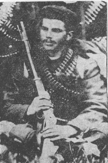 Portrait of IMARO's voivoda Hristo Karamandjukov from Rhodopes